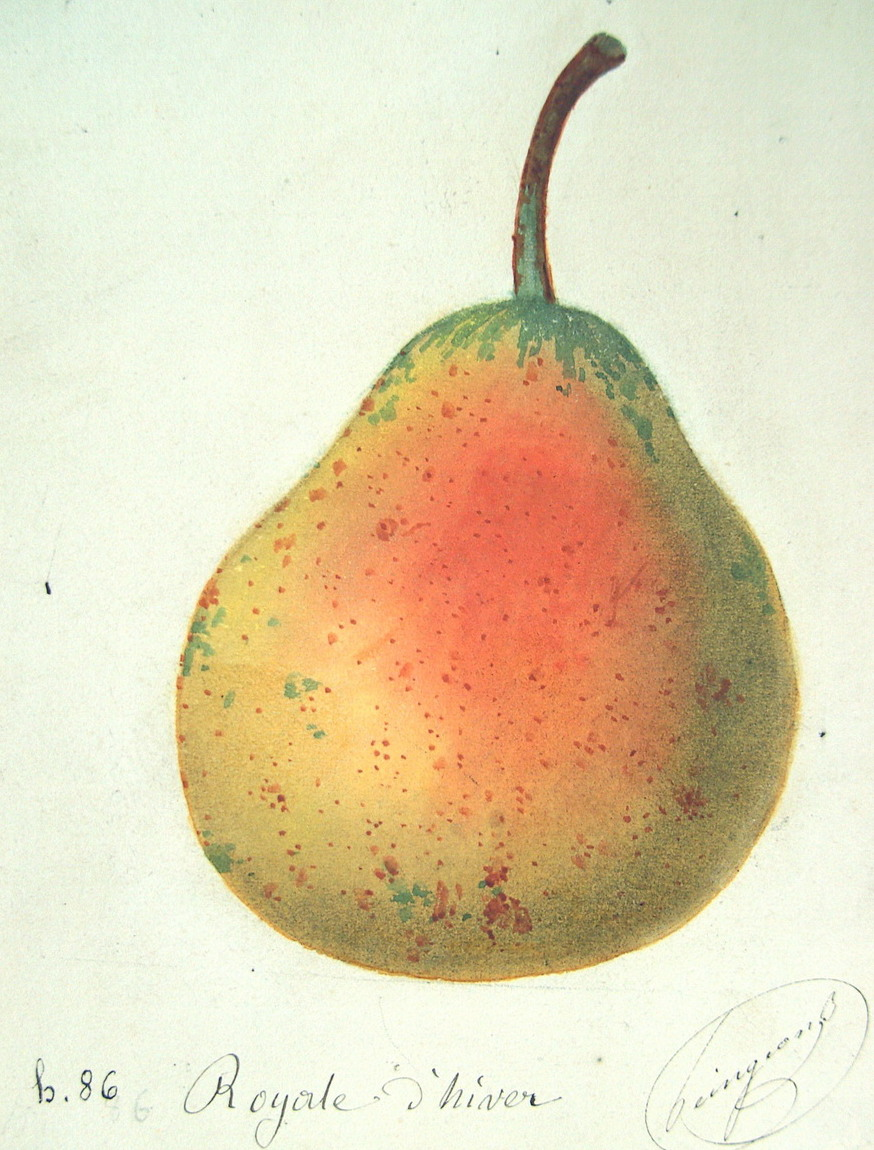 Royale d'hiver.